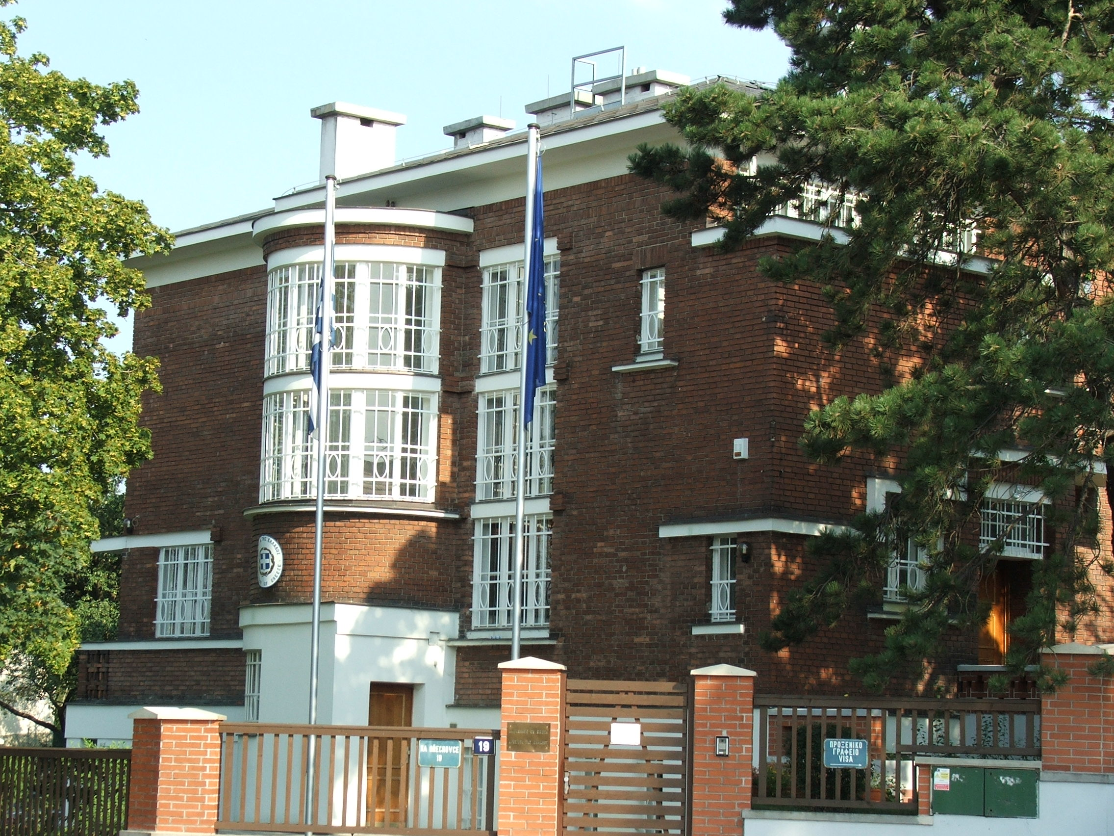 Embassy of Greece in Prague - Střešovice, Czechia.